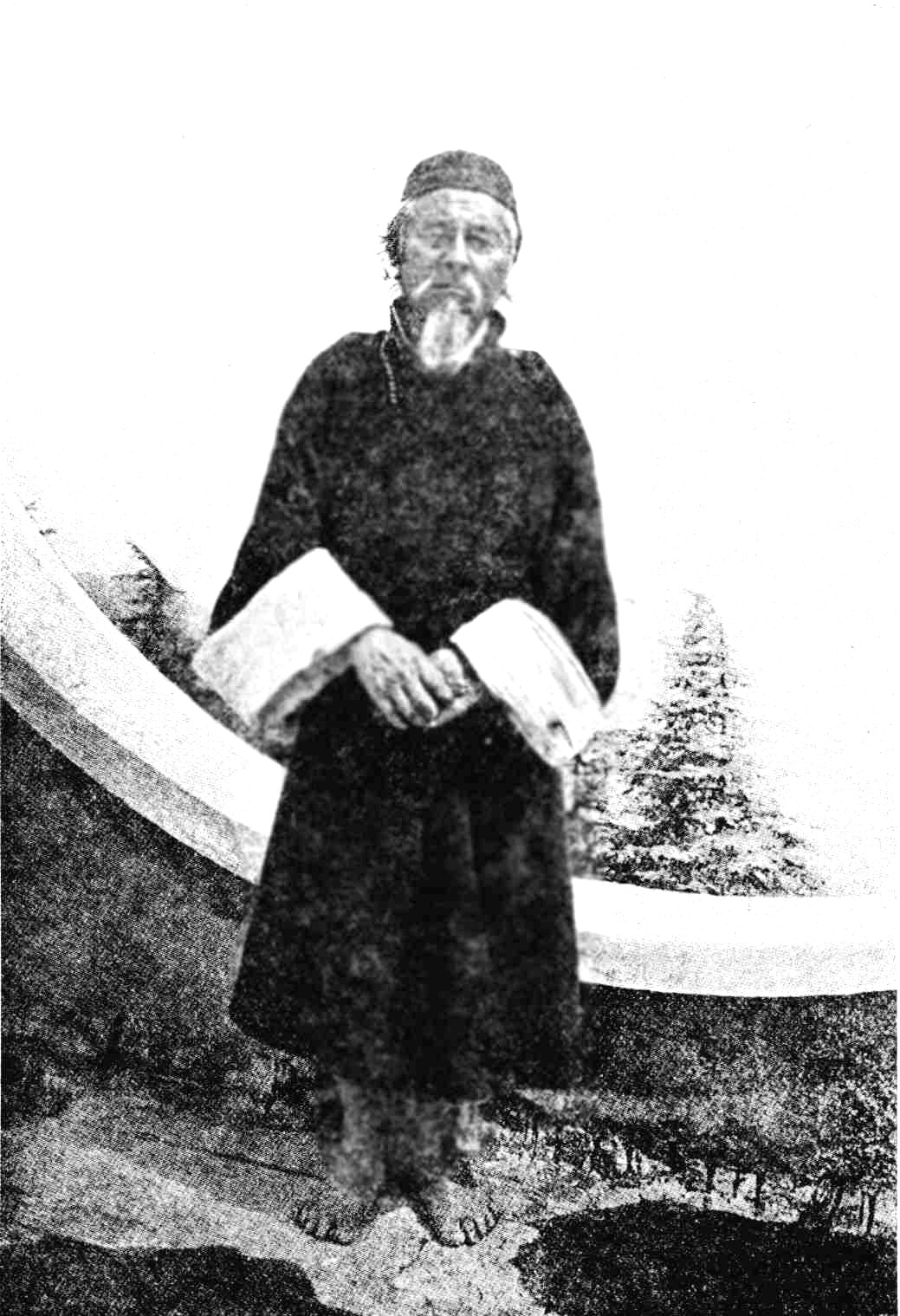 Photograph taken by Lieutenant G. Burrard in 1914 published in The Identity of the Sanpo and Dihang Rivers", Bulletin of the American Geographical Society,Vol. 47, No. 4 (1915), pp. 259-264, page 262.